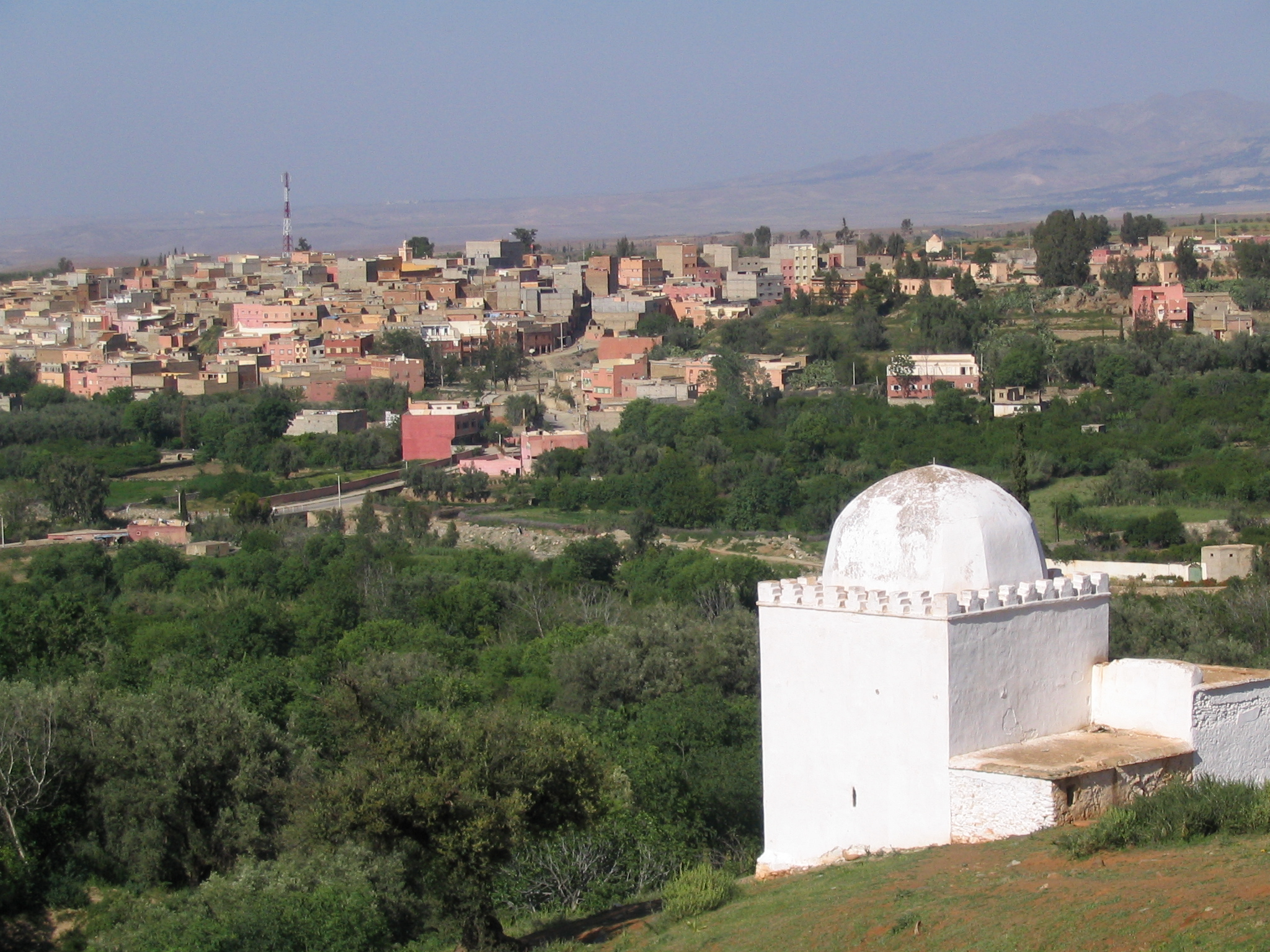 Uploaded by owner. Village of Amizmiz, Morocco.